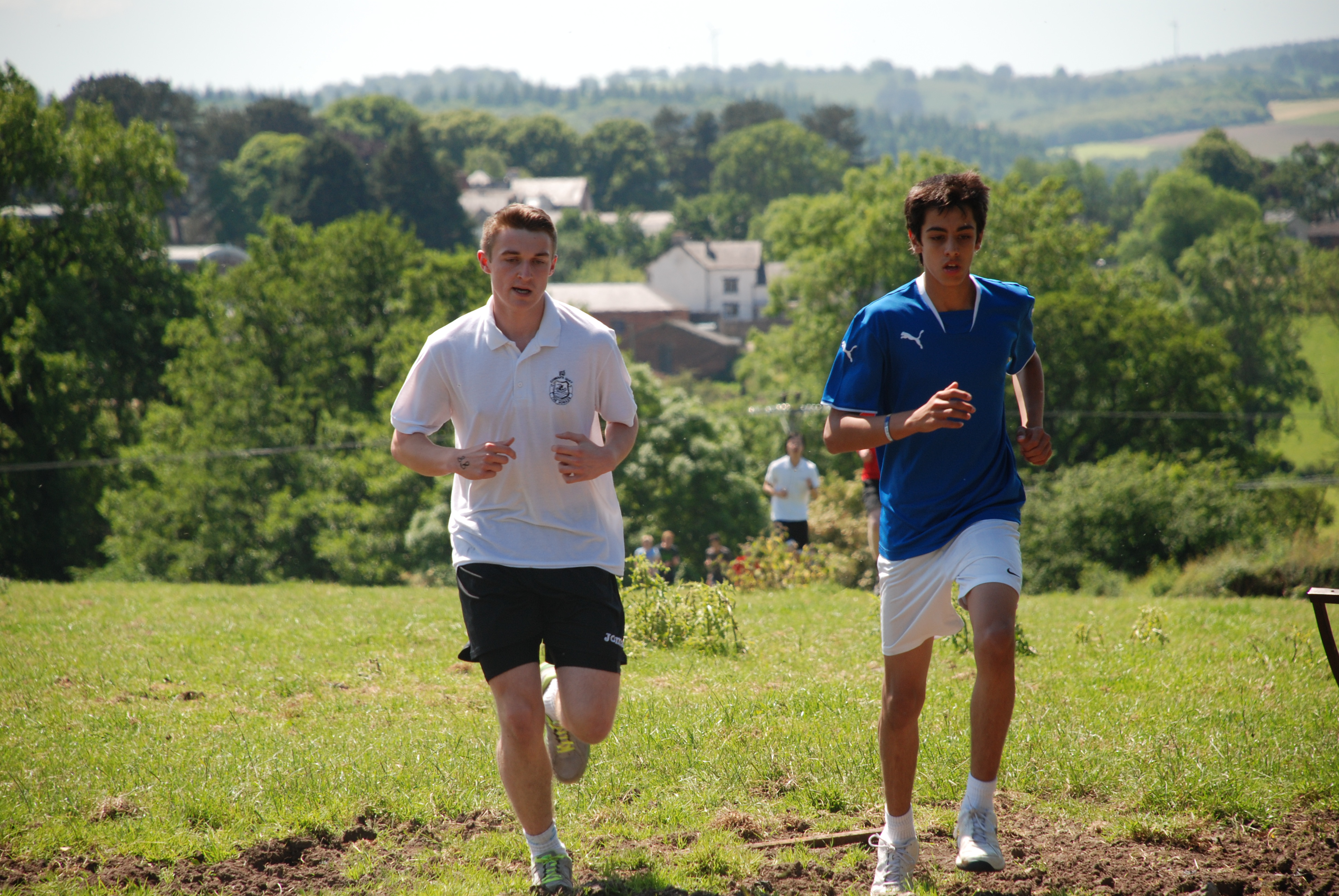 Sam Jones & Arun Thiru running in the annual Hill Fort Race.